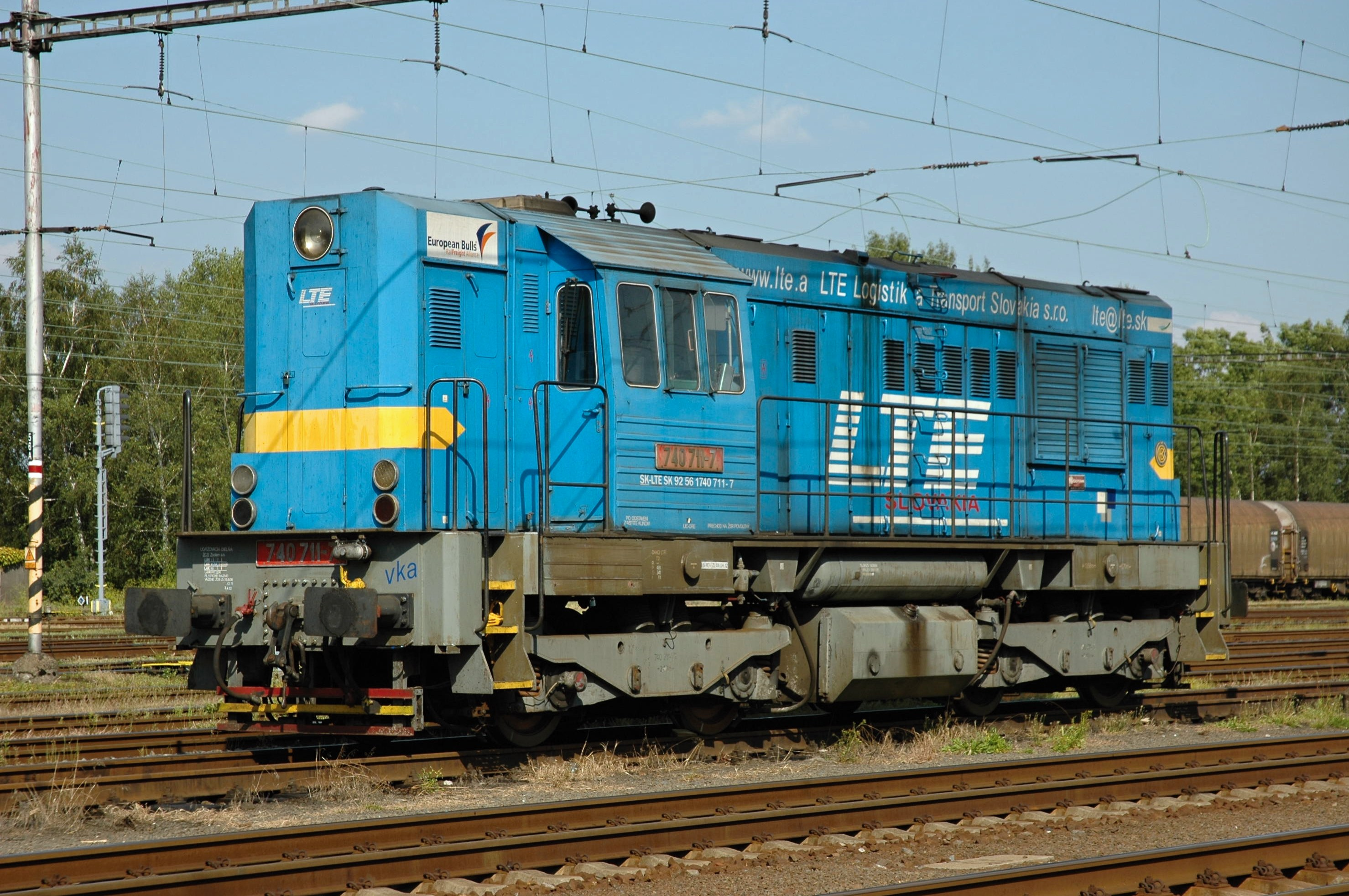 Locomotive 740.711 of LTE Logistik a Transport Slovakia at Petrovice u Karviné railway station